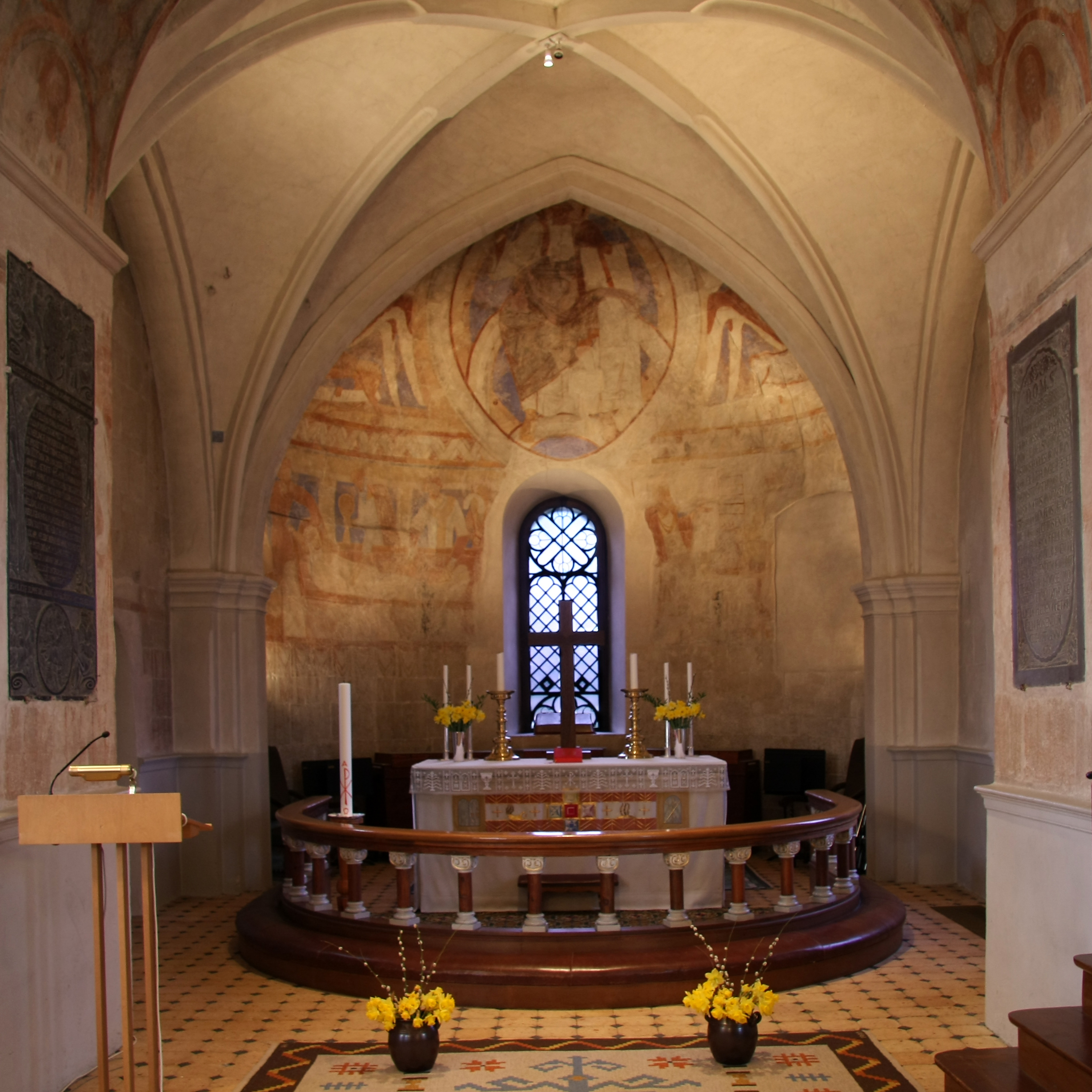 Vinslöv church in Vinslöv village, Hässleholm Municipality, Sweden, with well preserved 12th century murals